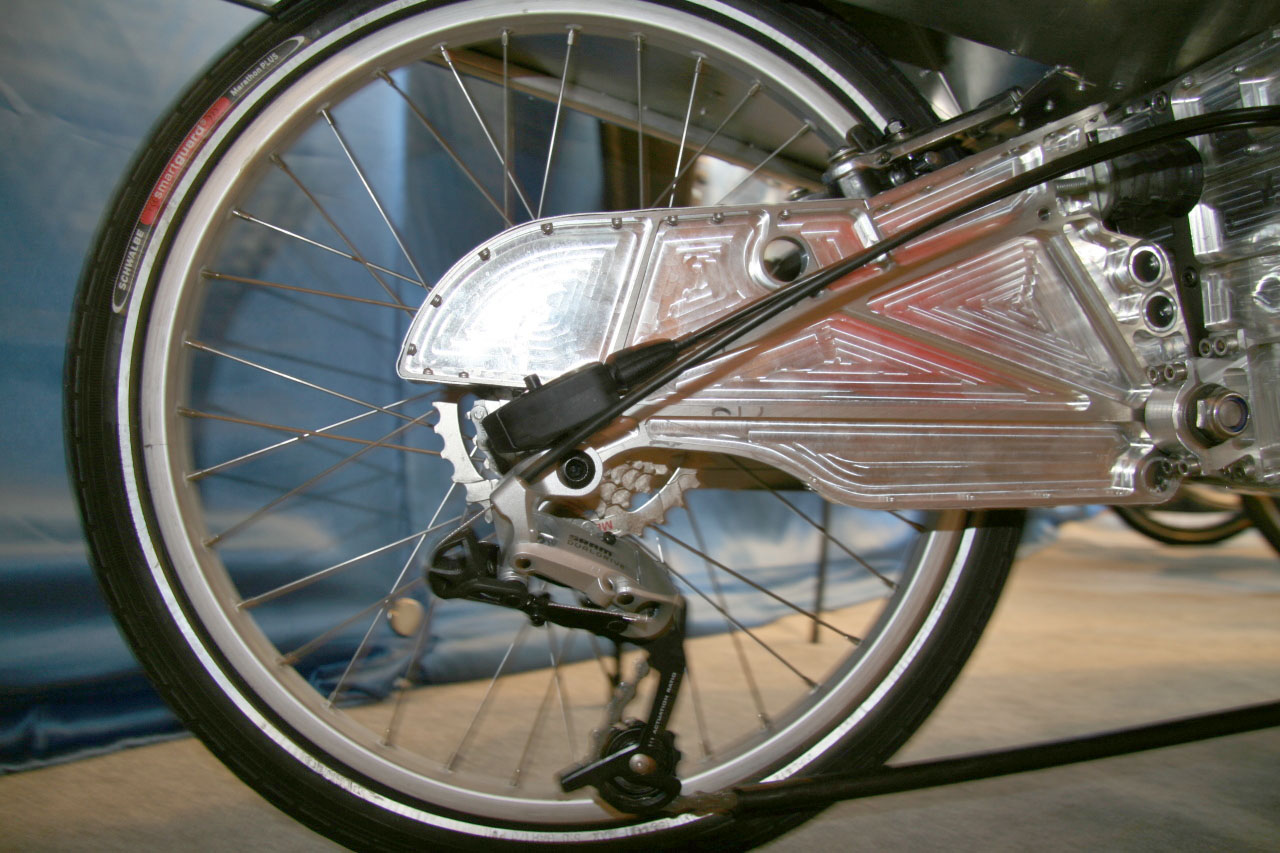 Rear wheel of the Alleweder Recumbent bike